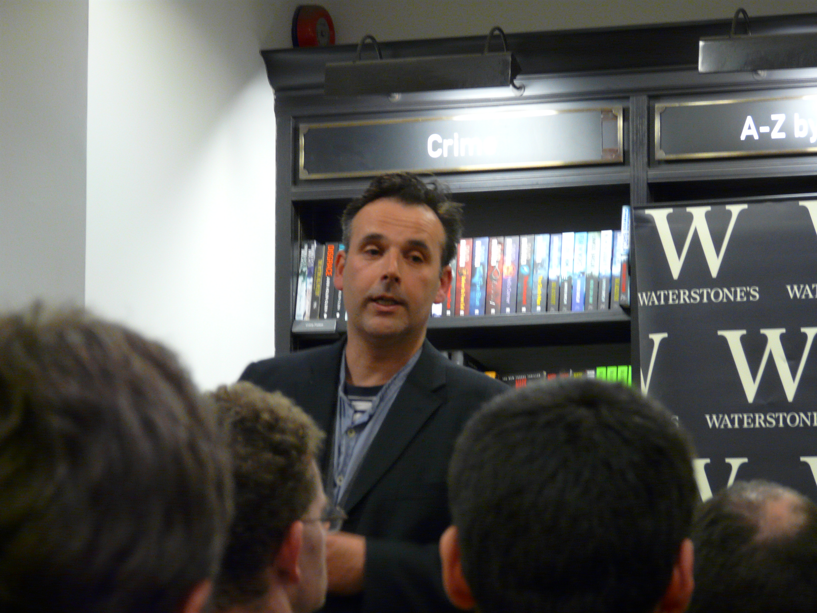 Robert Newman, 'The Trade Secret' Reading and Signing, Islington Waterstones